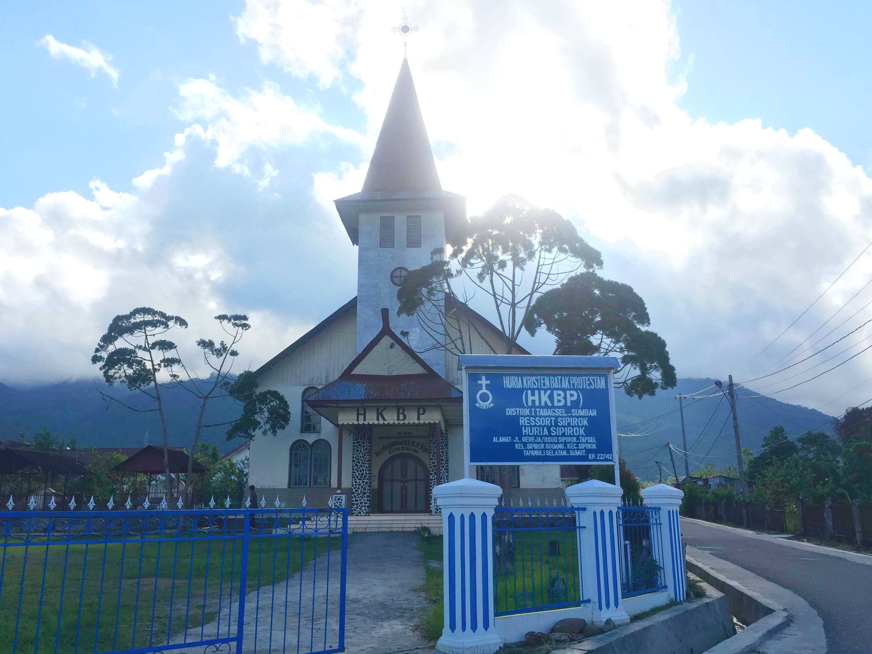 HKBP Sipirok, church in Sipirok